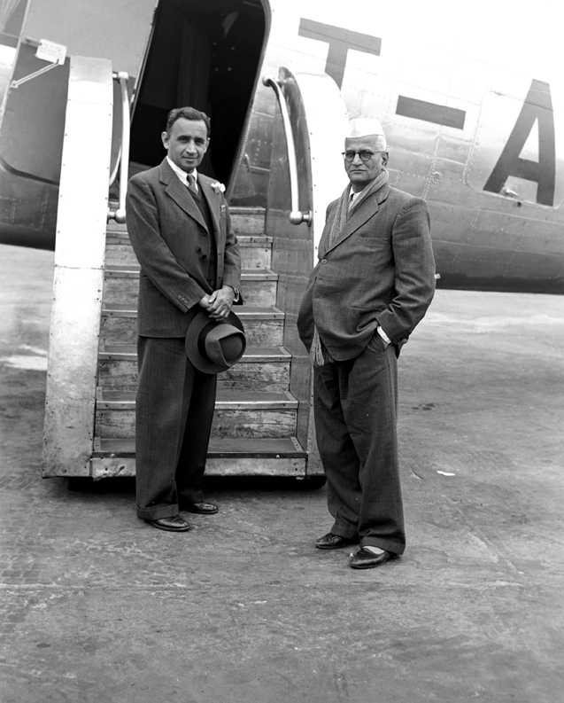 Photo Studio/2.2.1952,A22nPhoto taken on departure of Minister for Finance Shri C.D. Deshmukh from Palam Airport on February 2, 1952. Photo Number:-24982